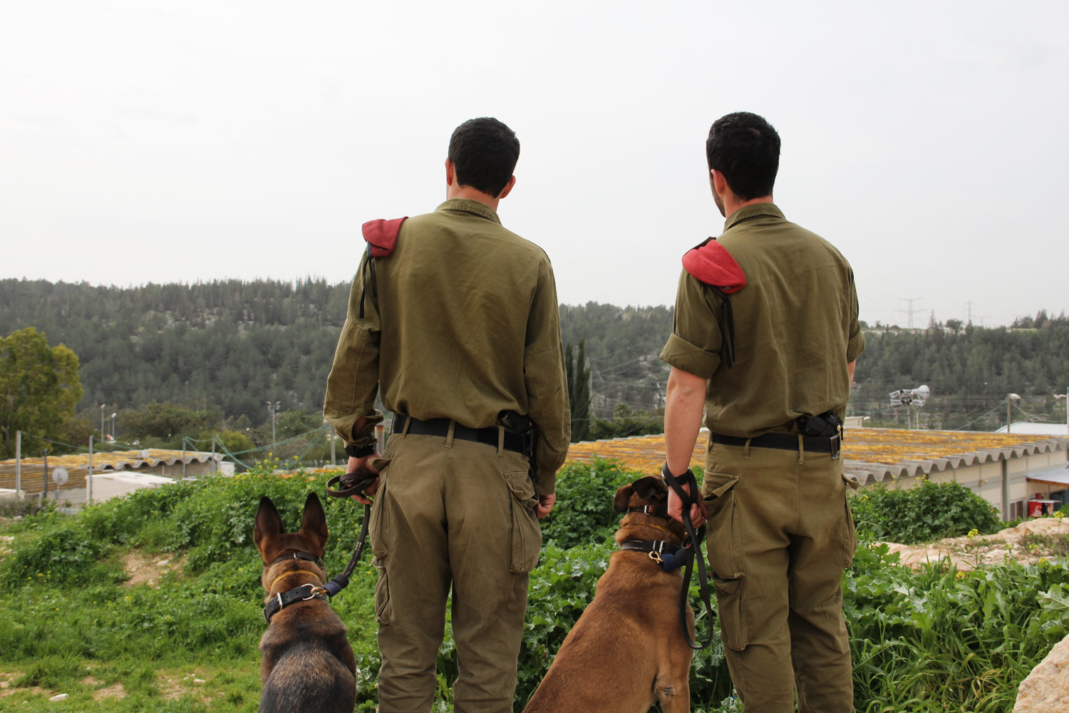 February 6, 2012 Oketz is the elite canine unit of the IDF. The unit is trained to operate with every combat unit in the army. The two brothers stand with their dogs by their side. Photo taken by Topaz Luk, IDF Spokesperson's Unit The Israel Defense Forces Facebook The Israel Defense Forces blog Follow us on Twitter